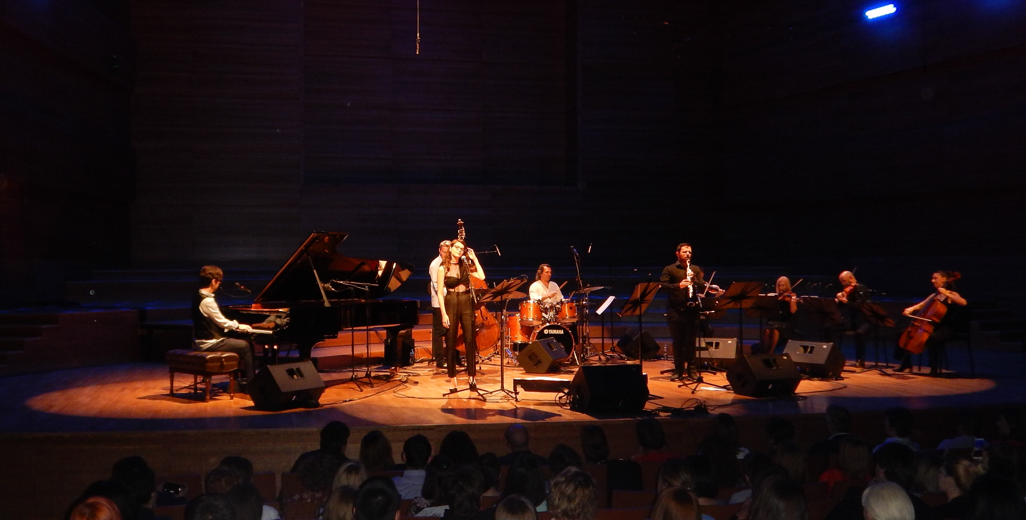 Concert of Duke Bojadziev in Skopje, on 12 May 2018